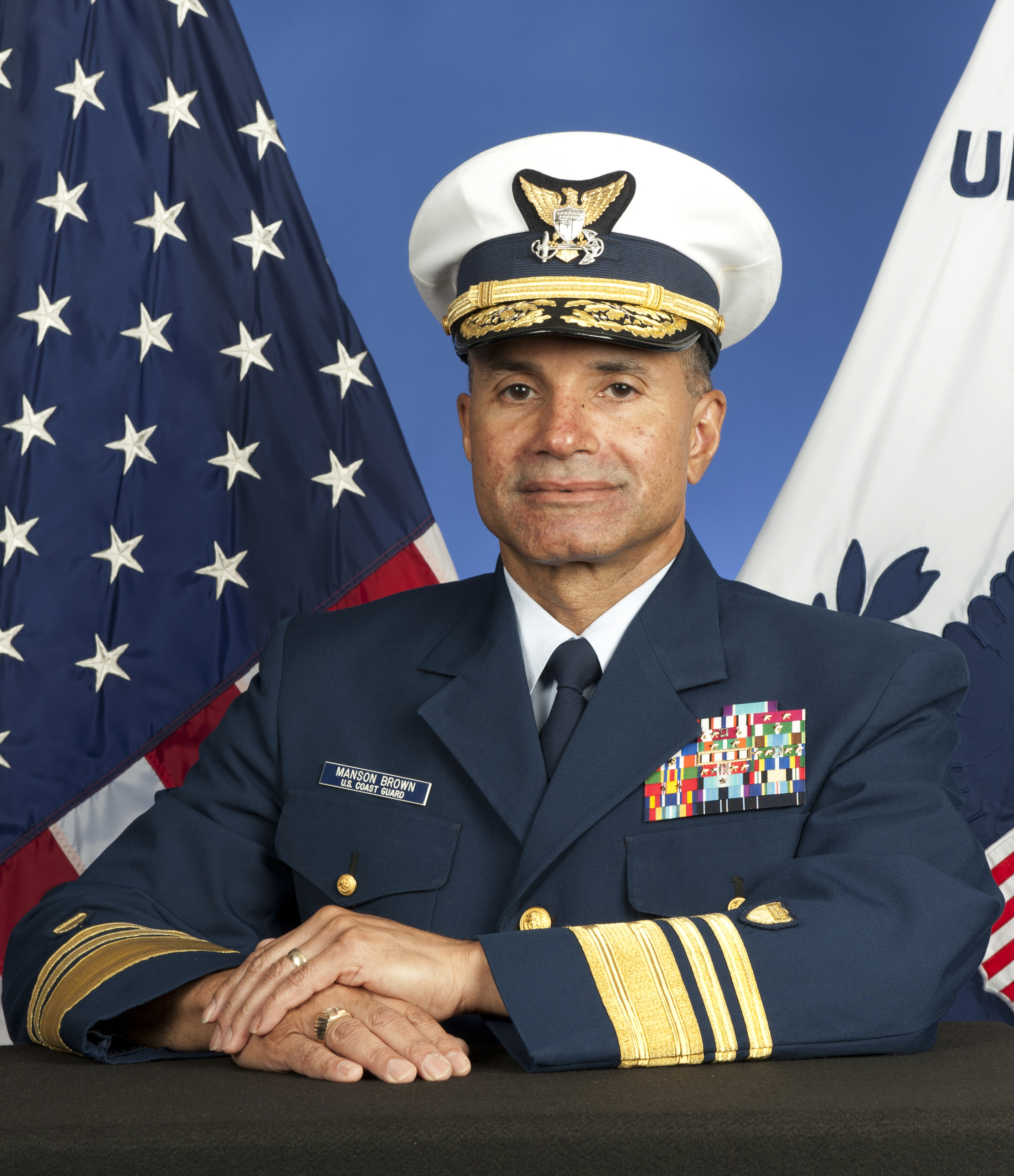 Official Portrait of VADM Manson K. Brown, USCG